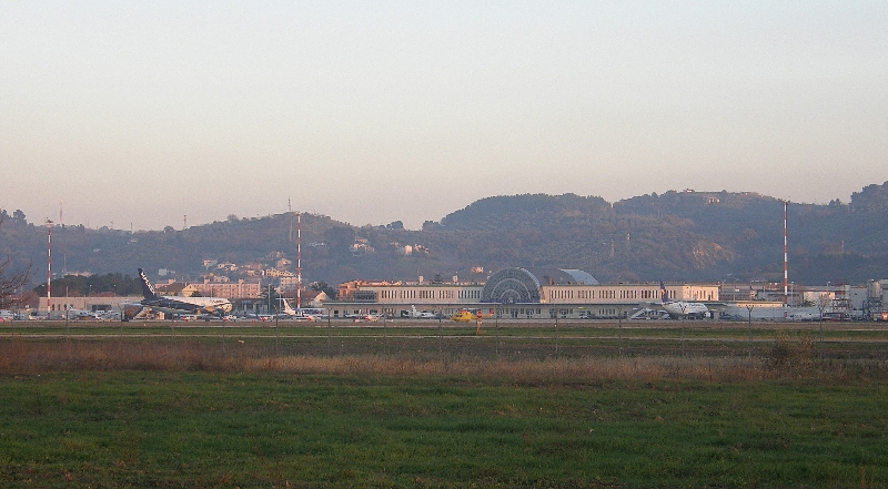 Airport in Pescara